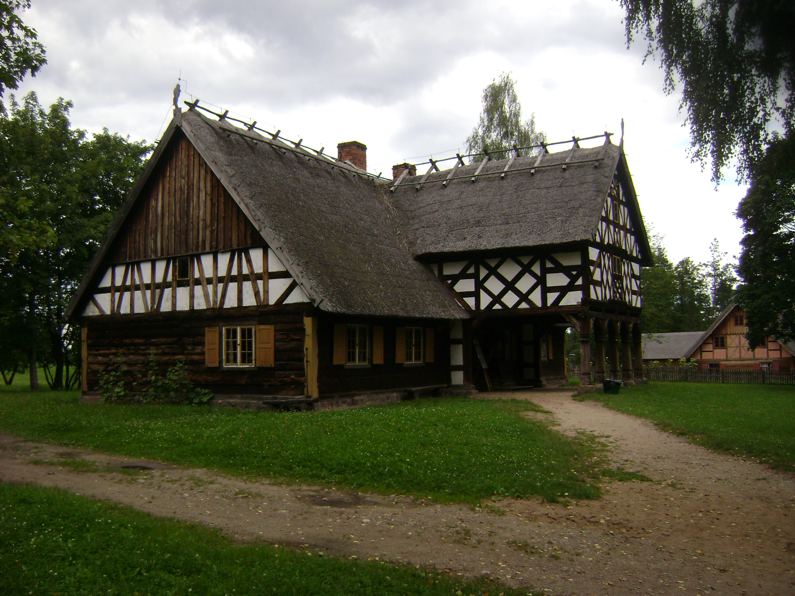 Poland. Olsztynek. Open air museum. Skansen